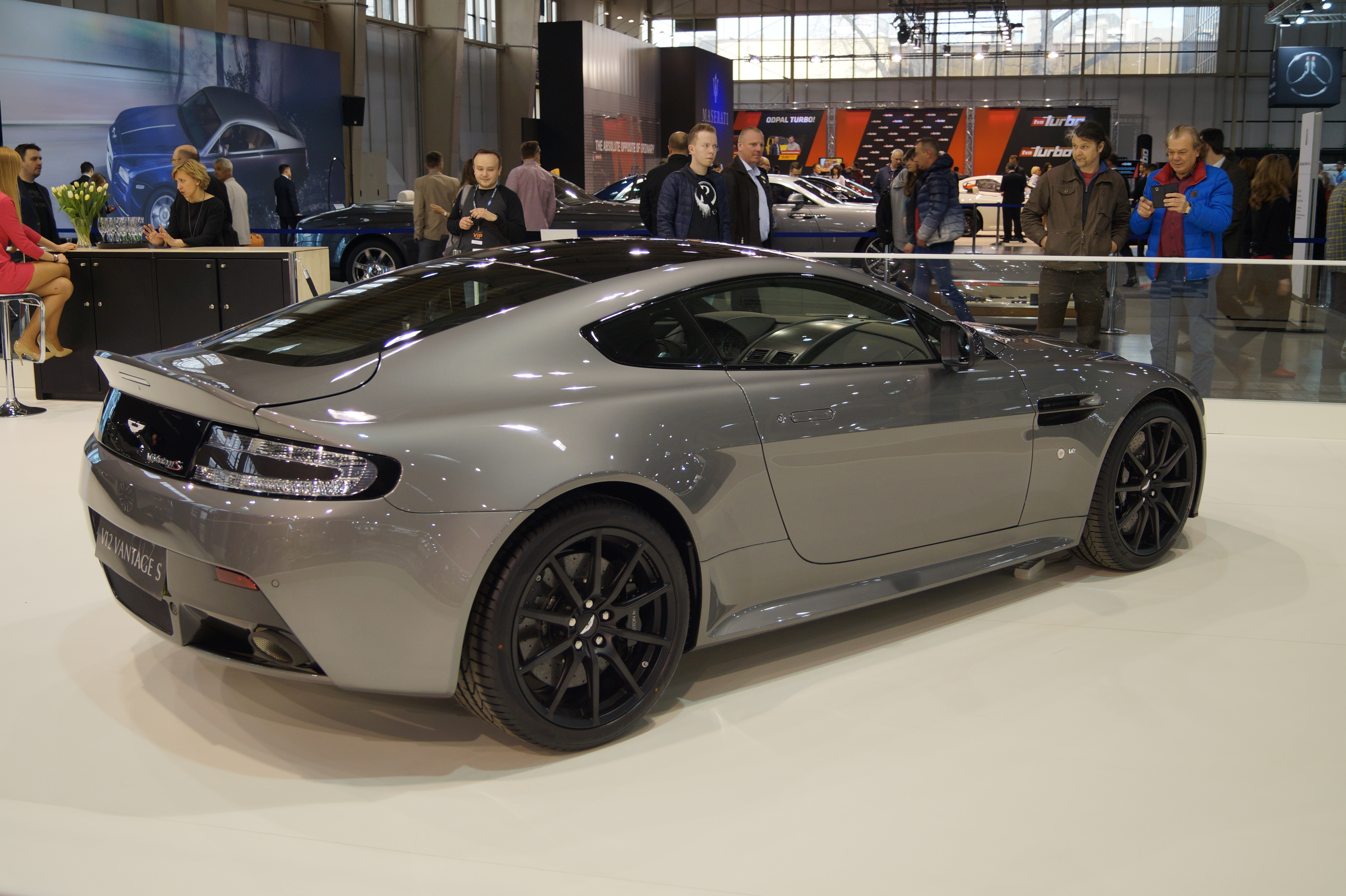 The making of this document was supported by Wikimedia Polska Association, within Wikigrant no. WG 2015-19. Tył Astona Martin V12 Vantage S na Motor Show Poznań 2015